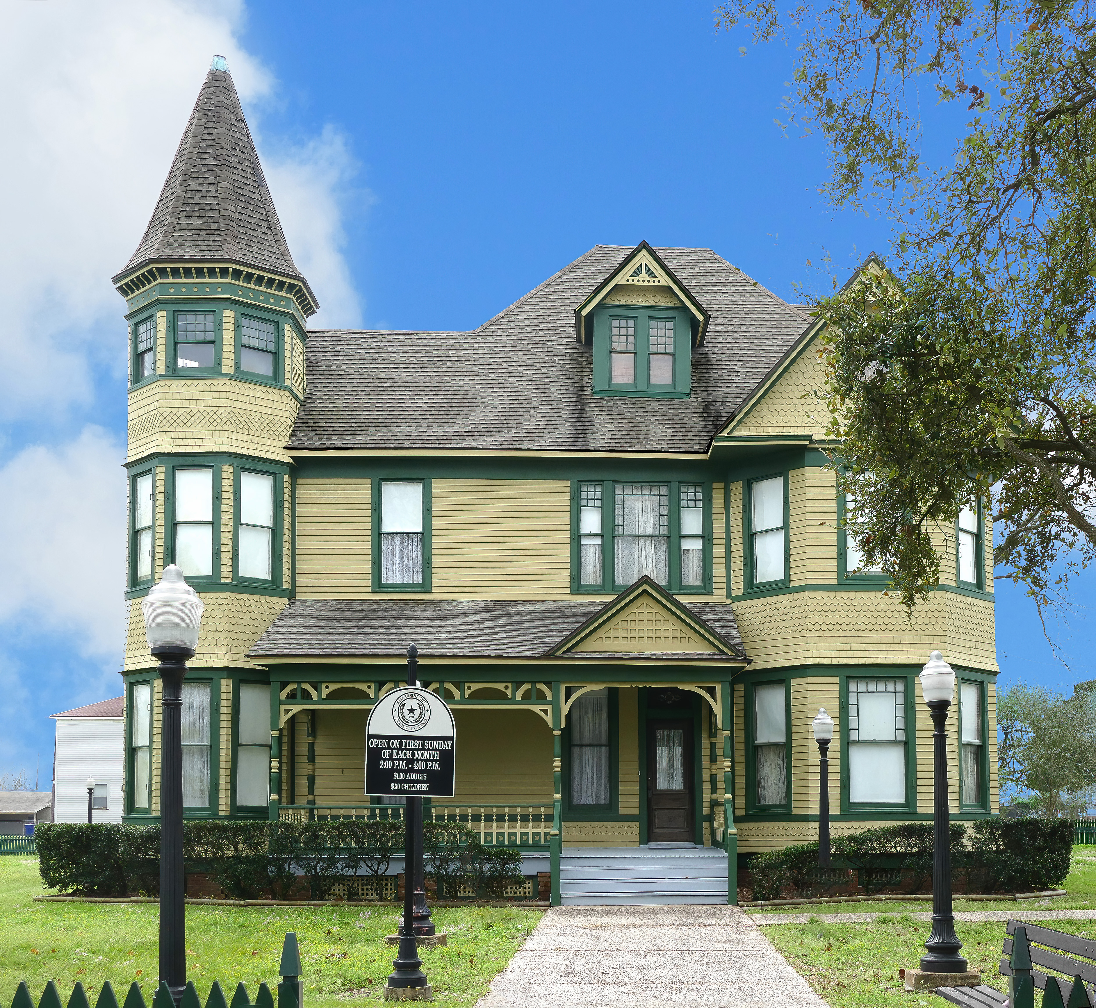 Built by Frank and Florence Haven Davidson, 1895-1897. Sturdy Victorian structure, of cypress. Home of first child born in Texas, City (formerly named Shoal Point). Survivor of many storms; suffered most in 1947 disaster. Davidson, prominent civic leader and pioneer in Texas City was first in many capacitied: city commissioner, postmaster, school trustee, bank director. Opened the first store in Texas City. And had the first telephone.